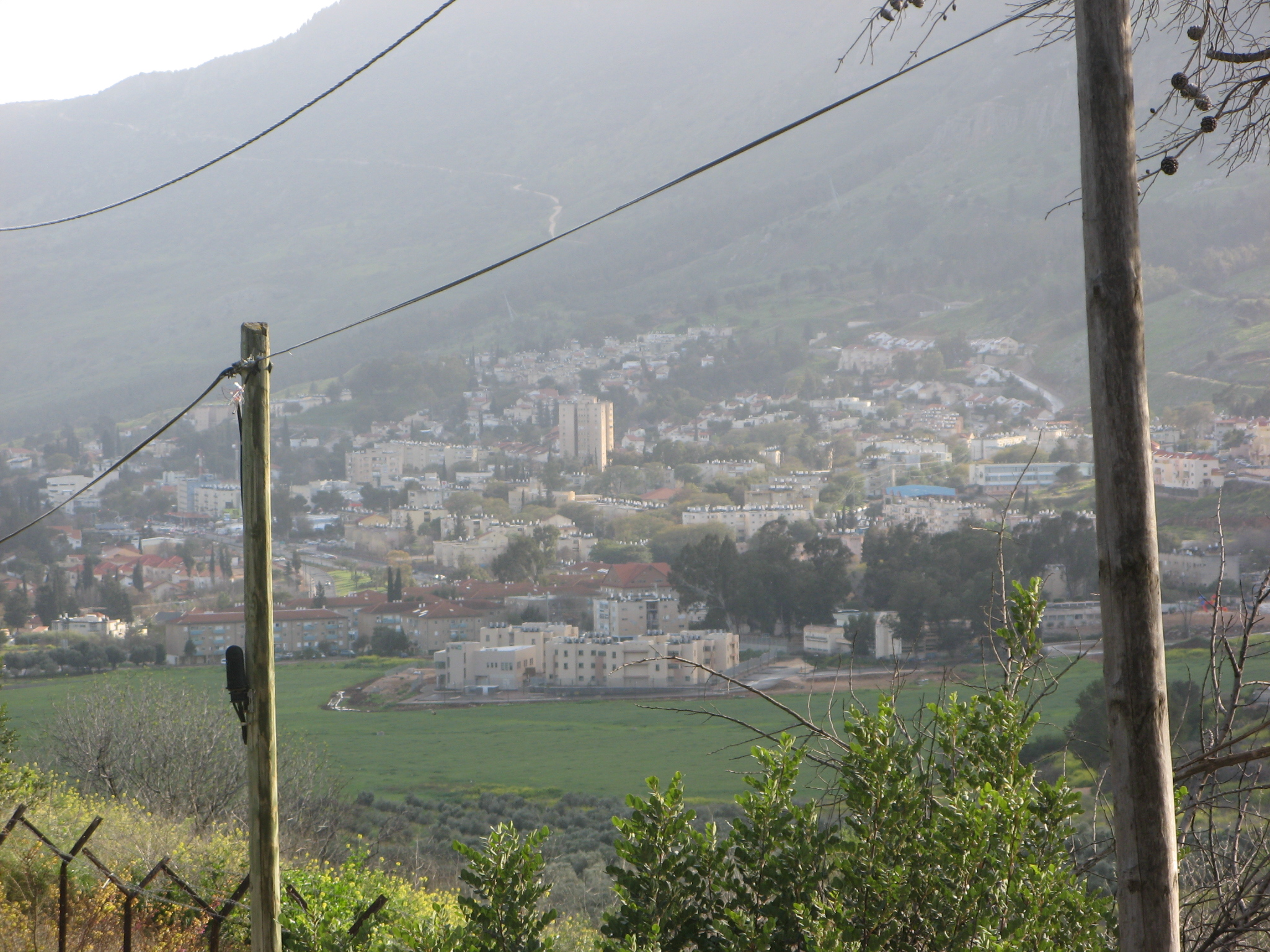 Qiryat Shmona viewed from Tel Hai (from the north)